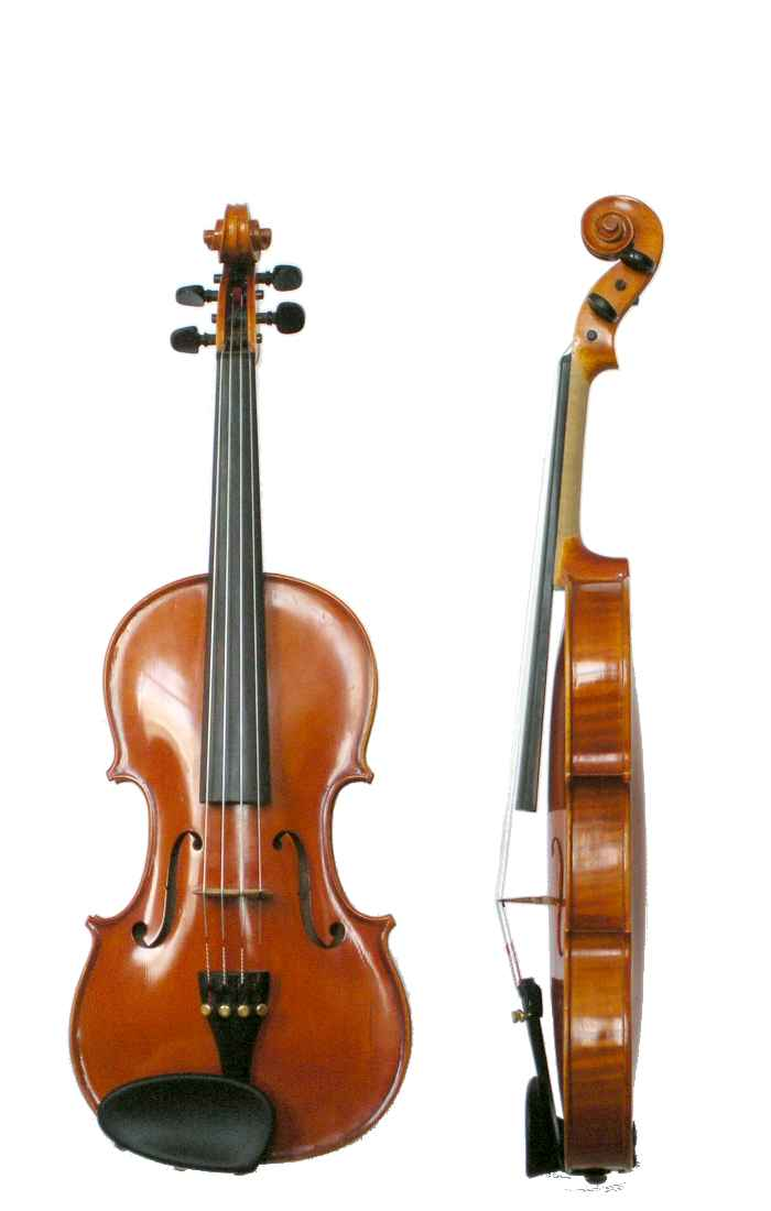 A standard modern trade violin shown from the front and the side.